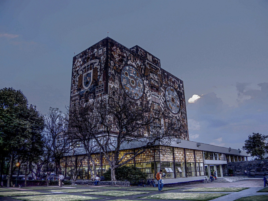 The Central Library of the National Autonomous University of Mexico.